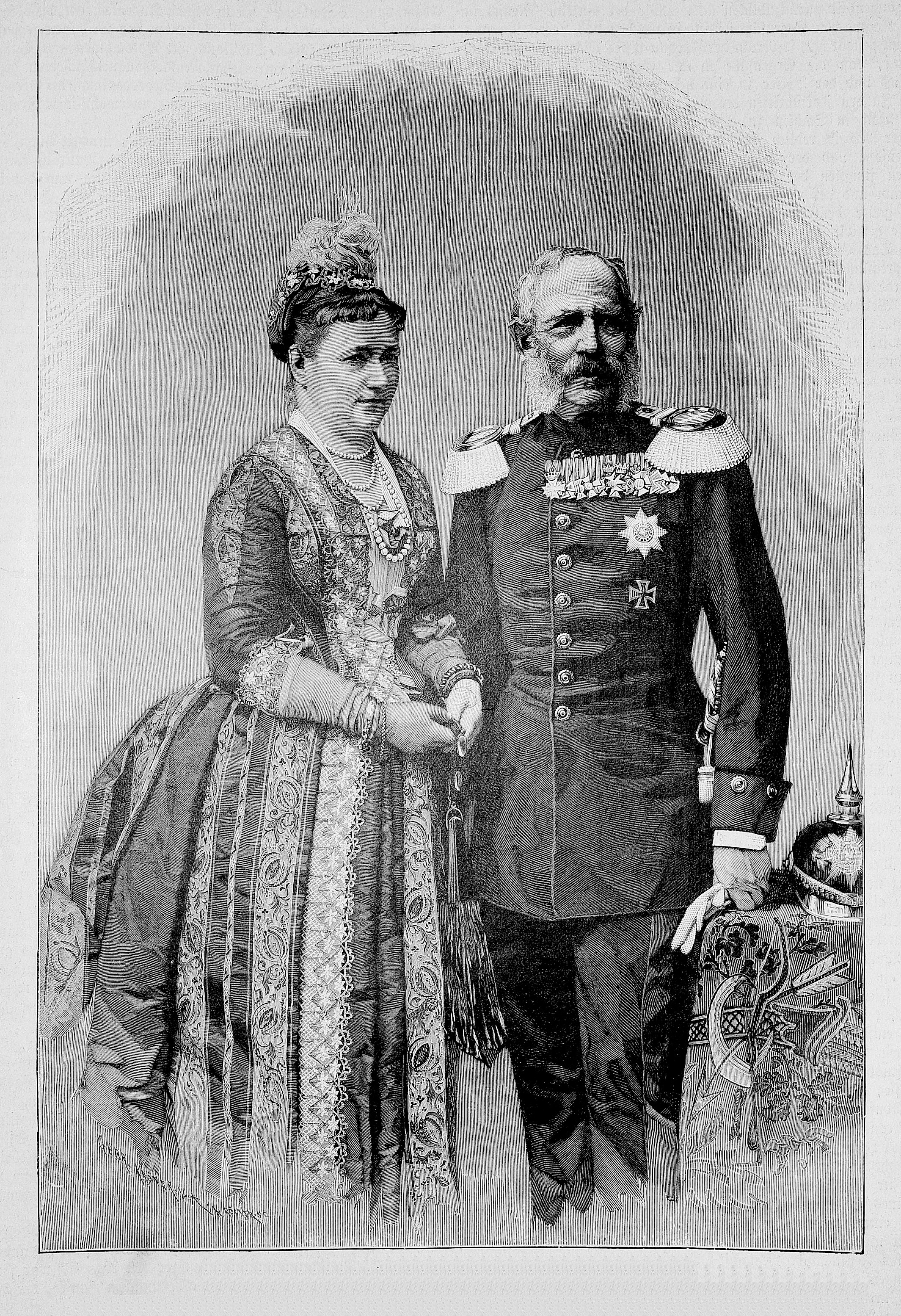 caption: "König Albert und Königin Karola von Sachsen. Nach einer Photographie von Otto Mayer, Hofphotograph in Dresden."